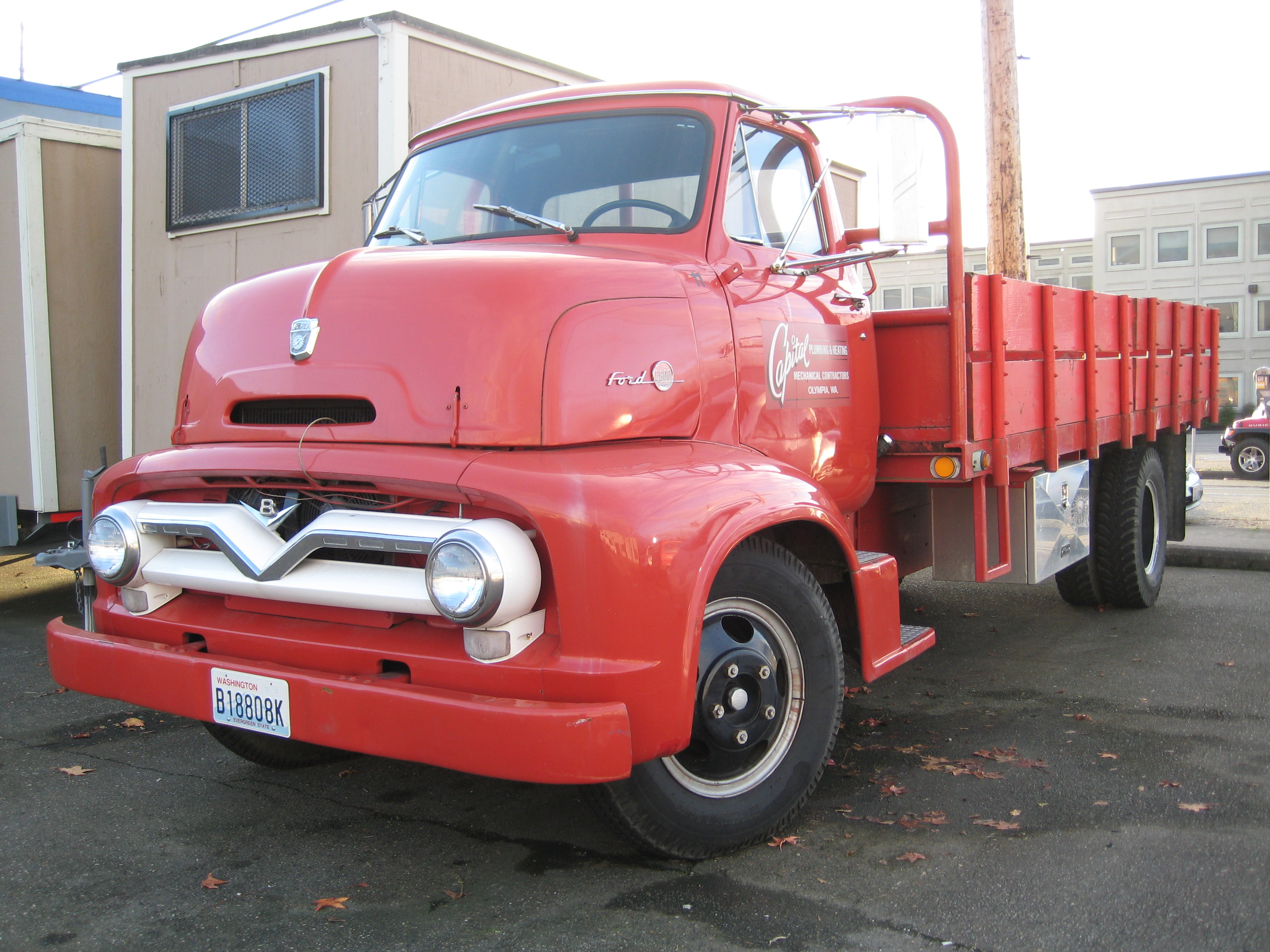 1955 Ford C-600 COE. Seen in parking lot, Olympia, Washington